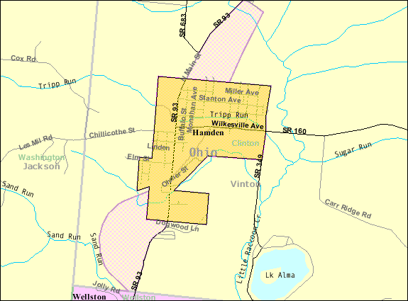 Map of Hamden, a village in Vinton County, Ohio, United States, with its boundaries at the time of the 2000 census.